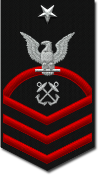 US Navy Senior Chief Petty Officer shoulder patch rate insignia